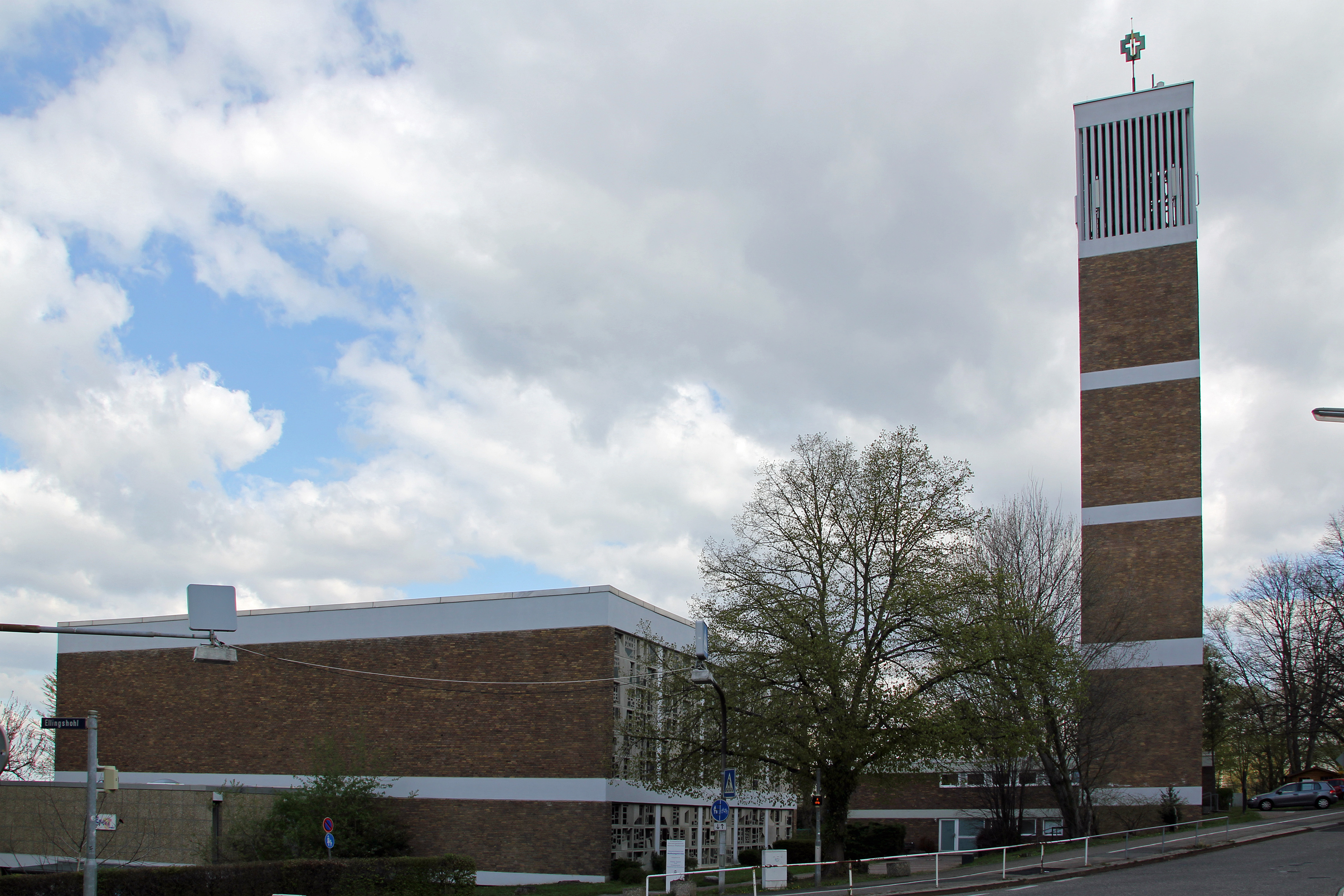 Hoffnungskirche in Koblenz